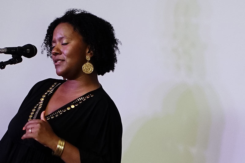 Indra Rios-Moore at Aarhus Jazz Festival 2015